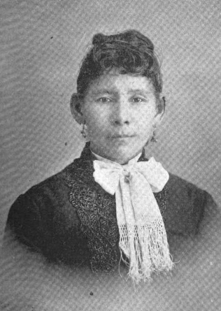 A Native American woman in a formal portrait. Her hair is arranged up and back, away from her face and shoulders, ears exposed; she is wearing a dark jacket with a light-colored fringed fabric bow at the neck.